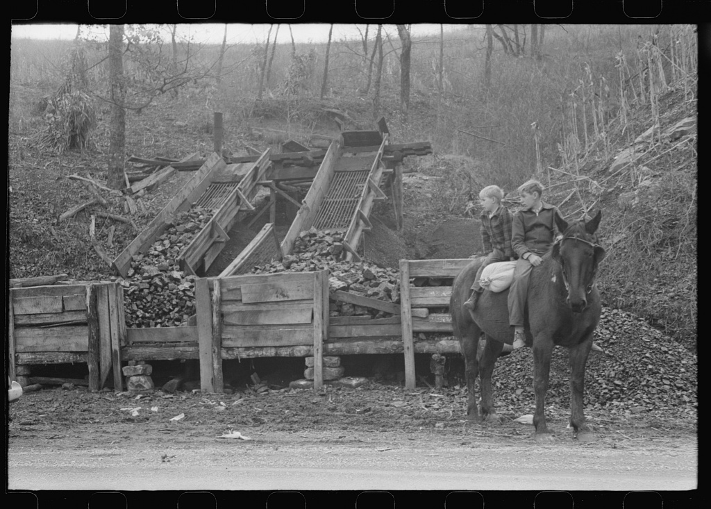 An independent coal mine operated by Tommy Abner near Barbourville, Kentucky, USA.